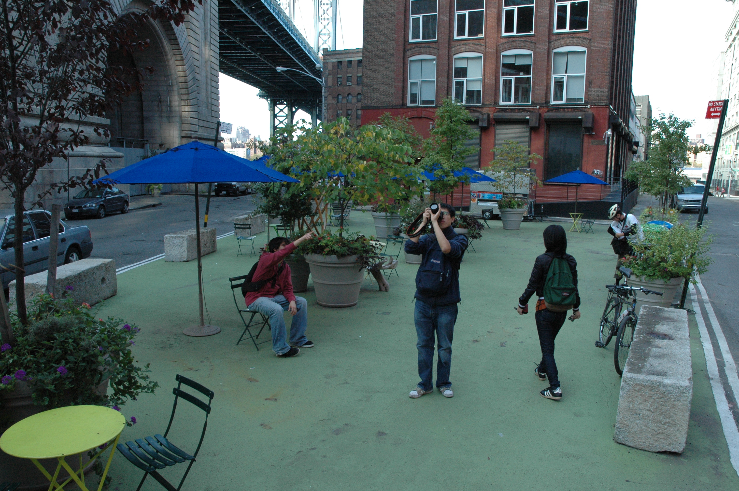 This photo is of Wikis Take Manhattan goal code J50, Pearl Street Pocket Park.